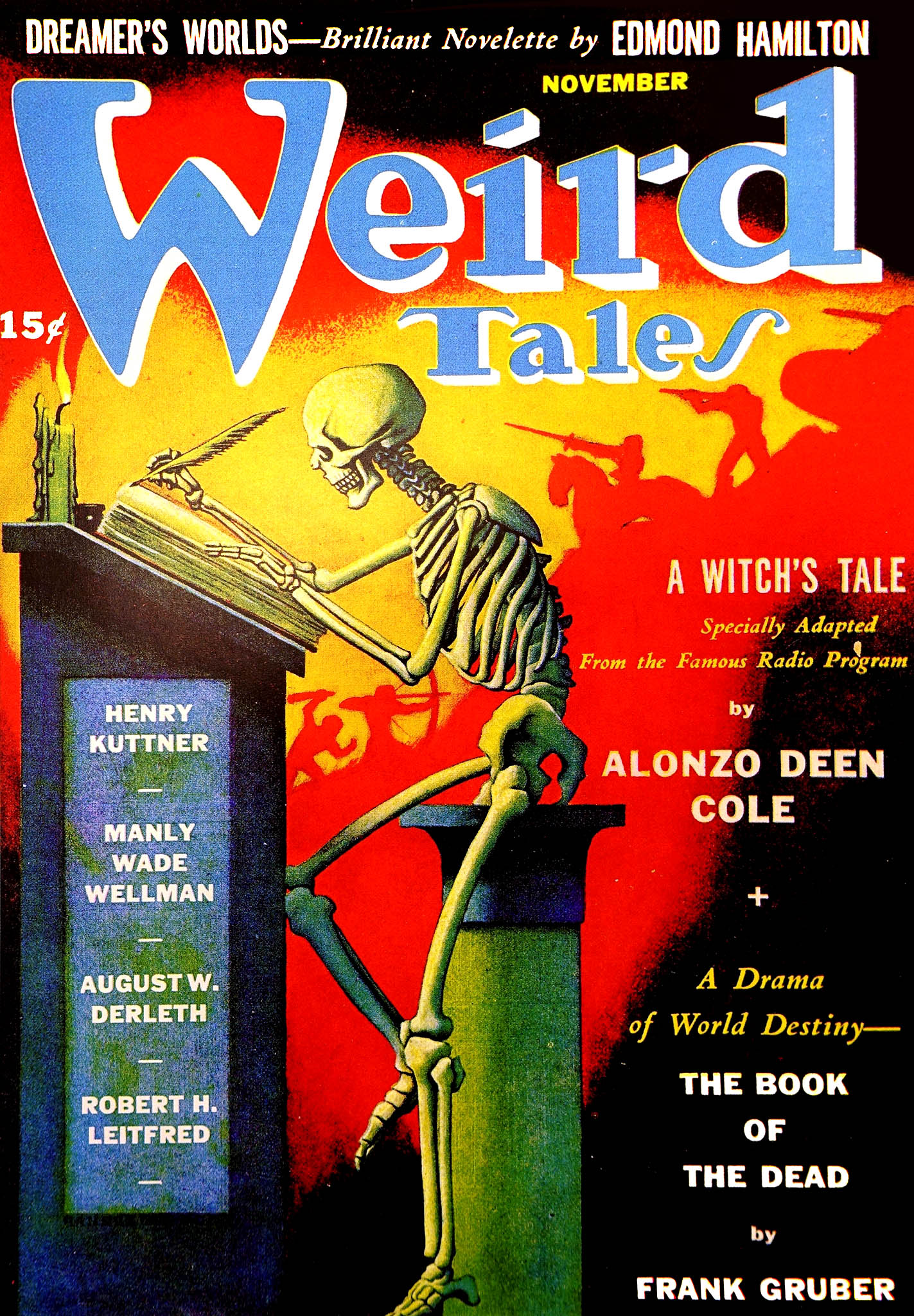 Cover of the pulp magazine Weird Tales (November 1941, vol. 36, no. 2) featuring A Witch's Tale by Alonzo Deen Cole and The Book of the Dead by Frank Gruber. Cover art by Hannes Bok.